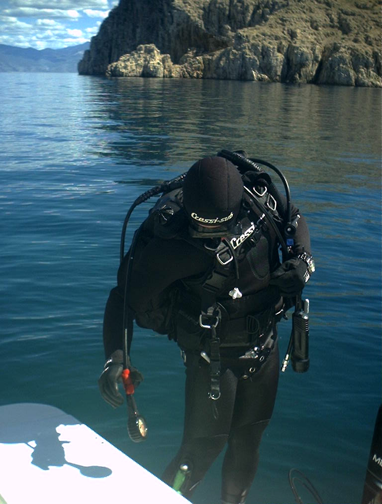 Scuba, Krk, Croatia